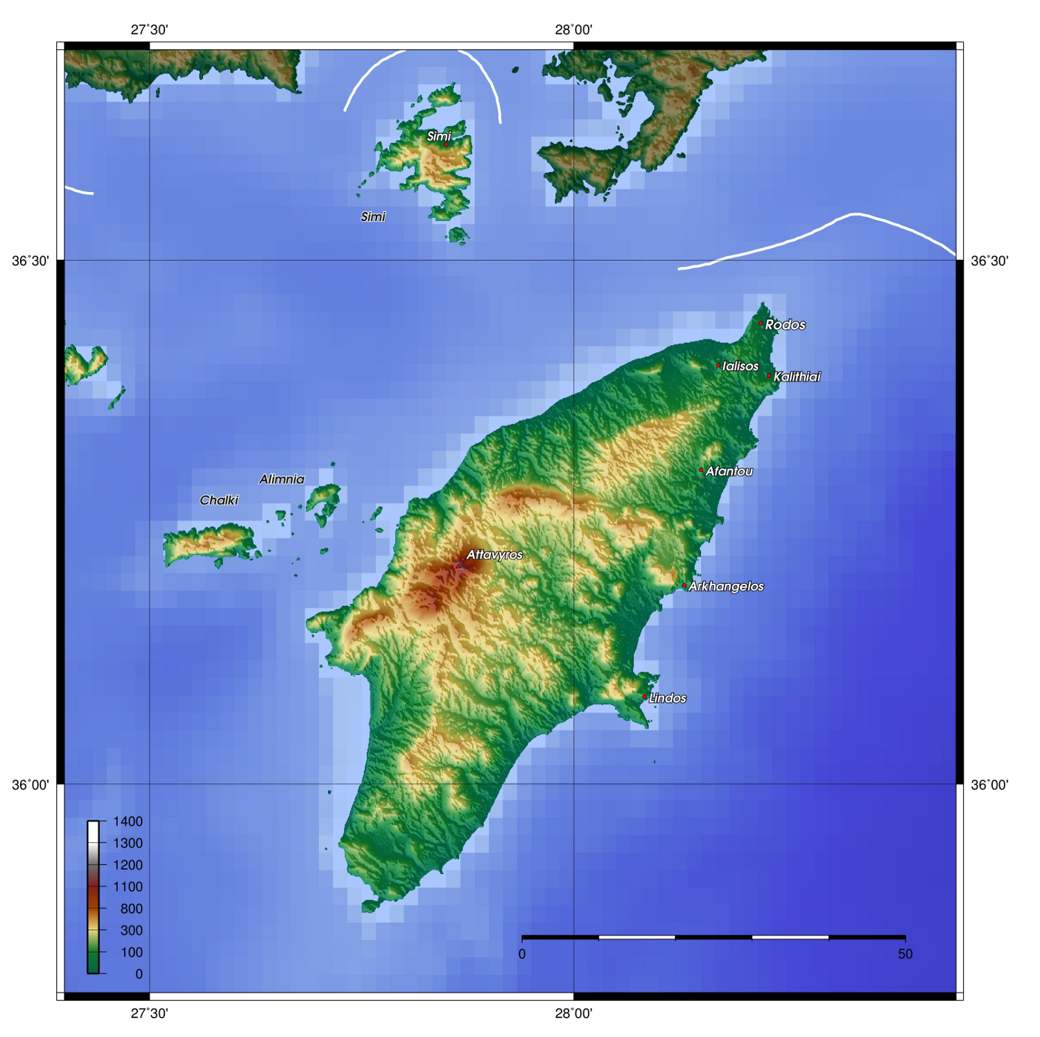 Description: Topography of Rhodes, created with GMT 4.1.3